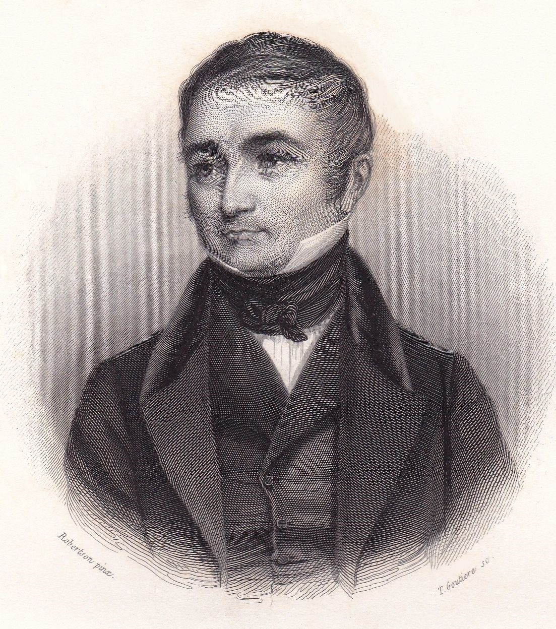 Sketch of a young Adolphe Thiers